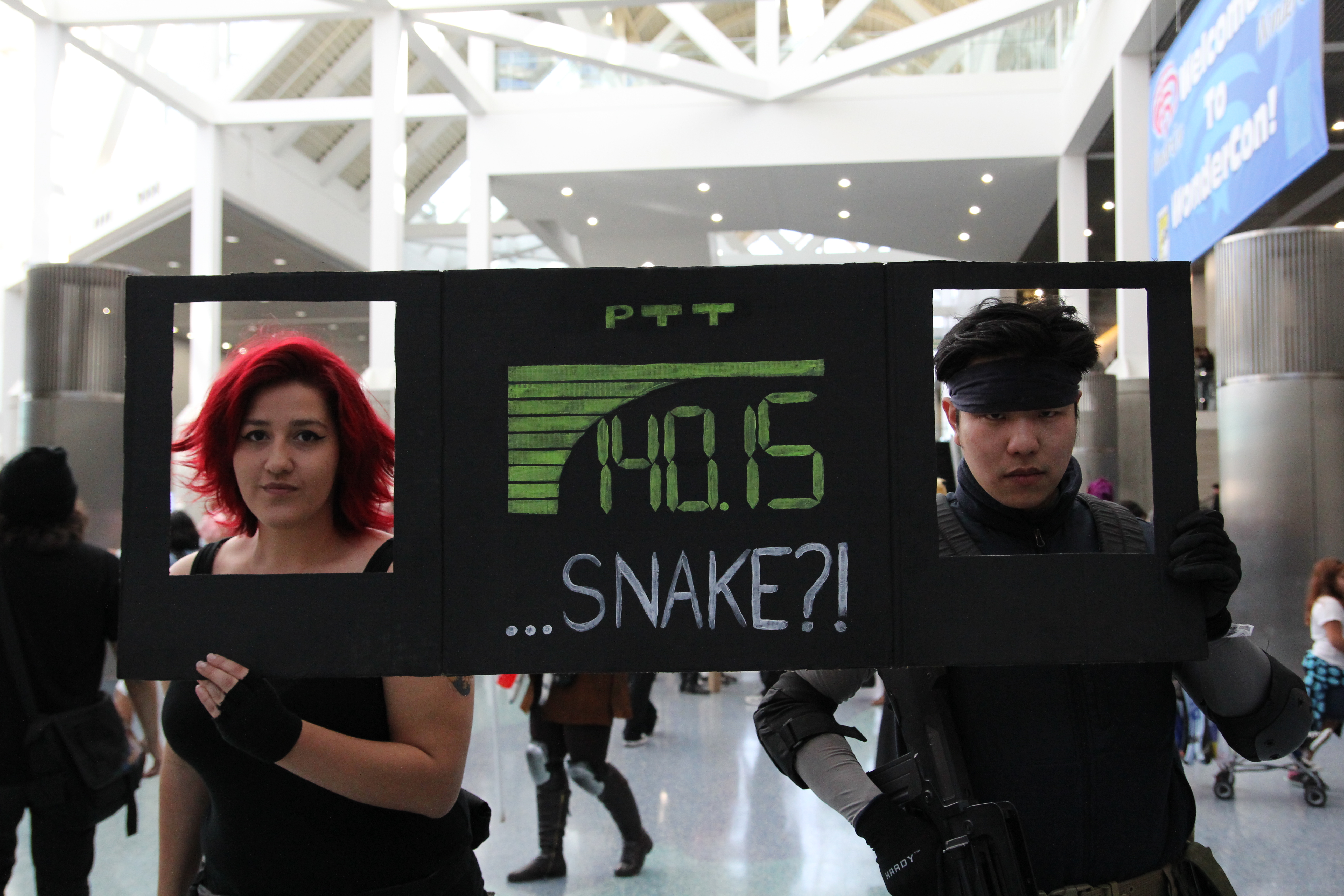 A Metal Gear Solid cosplay with Meryl [left] and Solid Snake [right] Cosplay at WonderCon 2016.